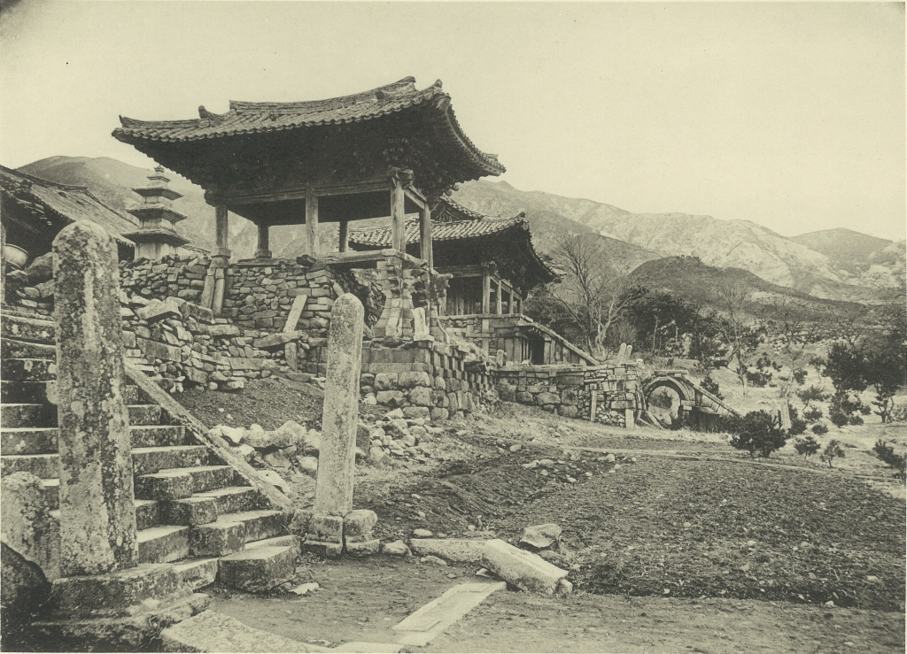 A photo of Bulguksa taken in 1914 during the Japanese occupation period of Korea. The temple underwent a 1924 restoration by the Government General of Korea. However, the record of the restoration does not remain at all, and the sarira that had preserved inside of the Dabotap pagoda disappeared after the restoration by the Japanese. The current status of Bulguksa is a result of a restoration by the South Korean government during 1970 to 1973. (source from Doosan Encyclopedia